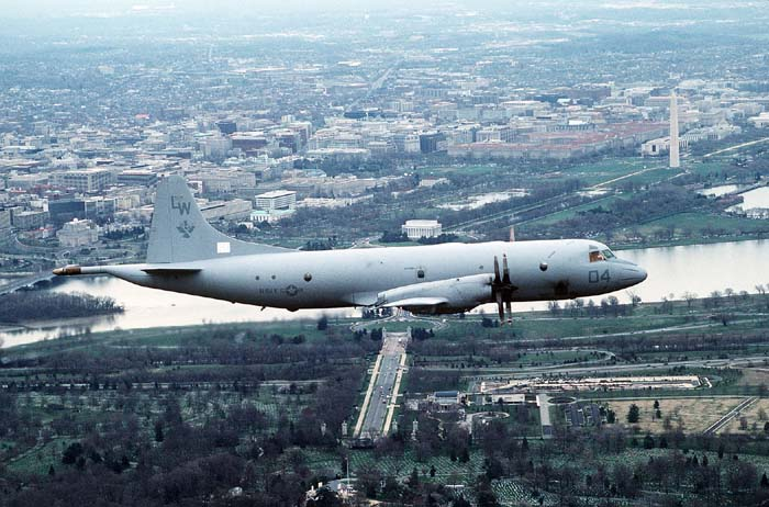 Repository: San Diego Air and Space Museum Archive